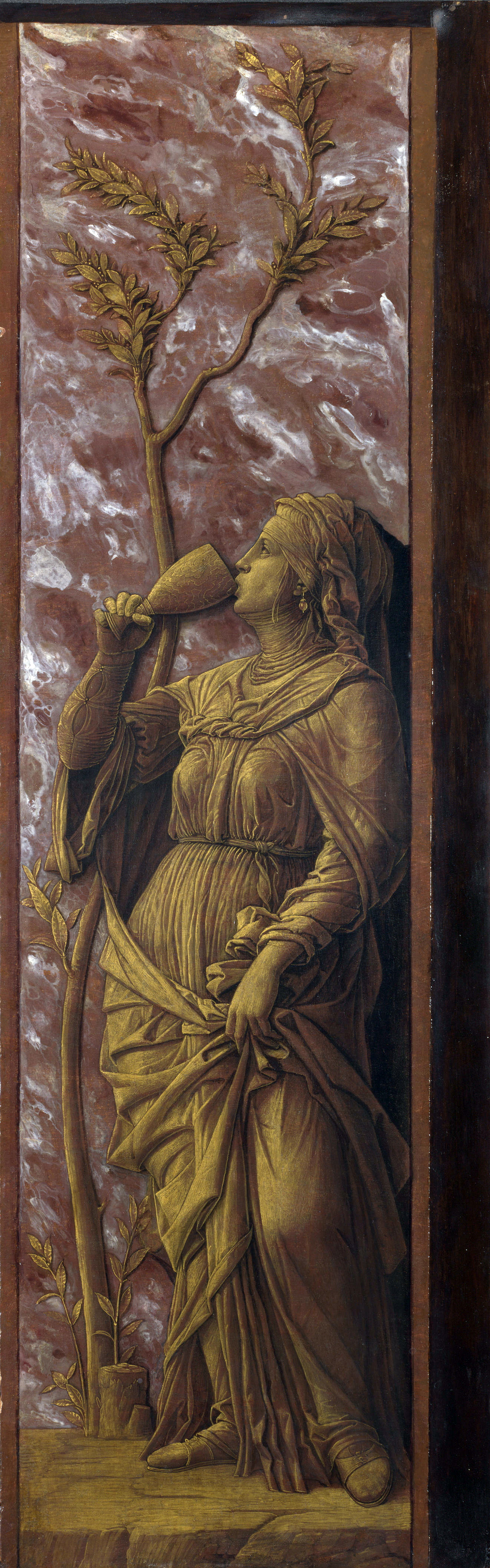 Sophonisba Andrea Mantegna Tempera on panel, originally 72.5 x 23 cm London, National Gallery